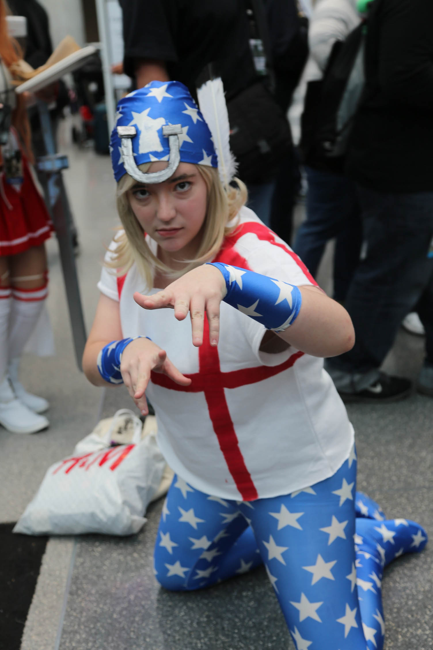 Cosplay at the 2014 New York Comic Con.